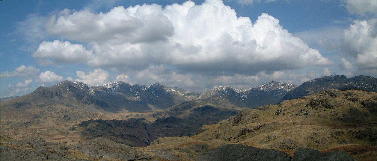 Scafells from Hard Knott